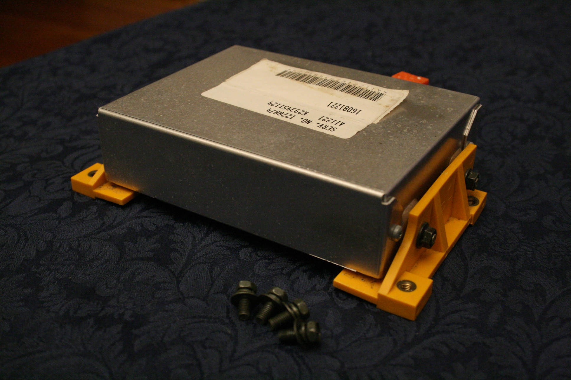 Airbag control unit (ACU) with its mounting screws from a 1990 Geo Storm GSi.